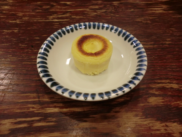 "Karaimo rare cake" famous in Kagoshima.